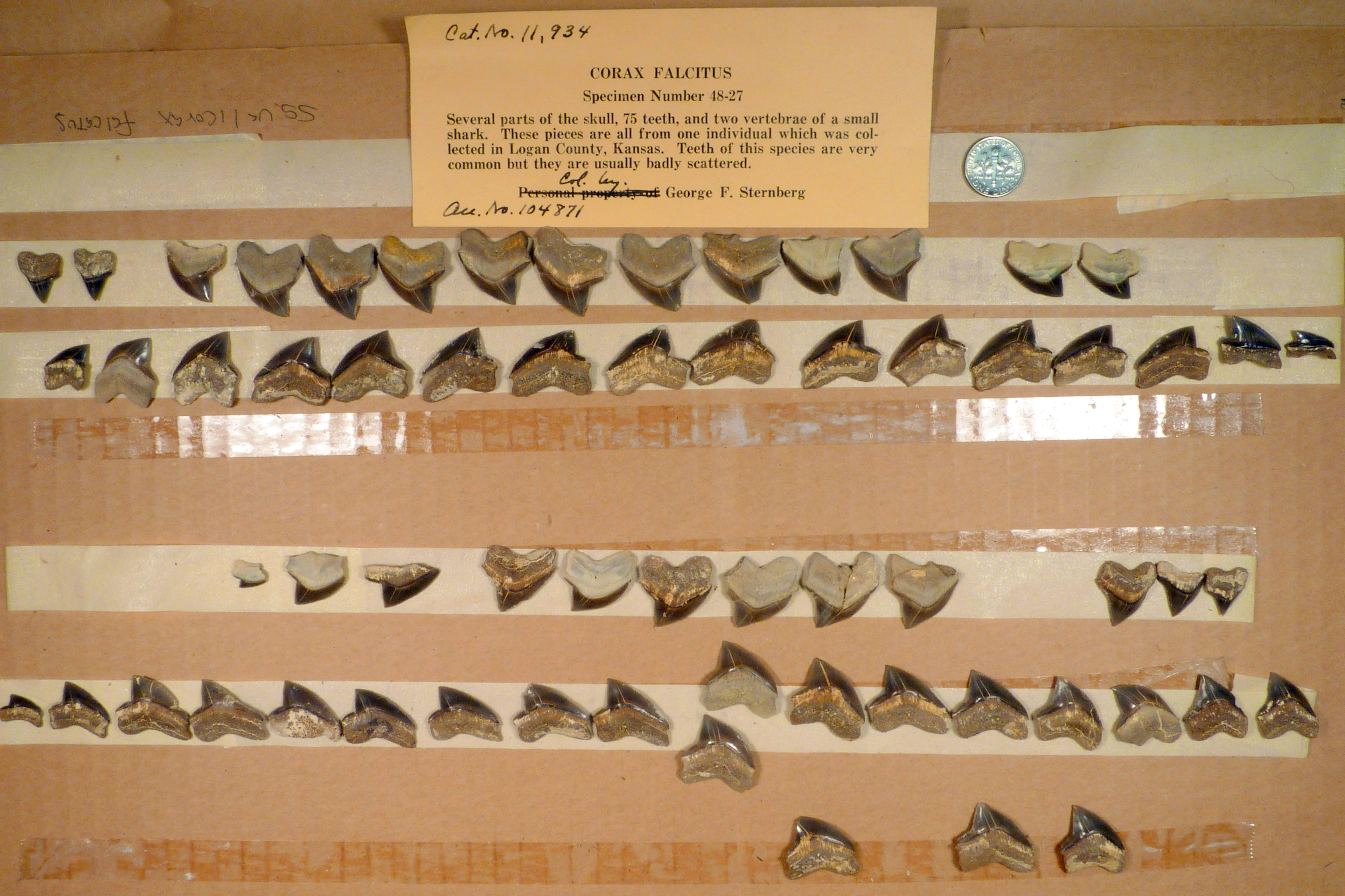 Squalicorax falcatus USNM 11934